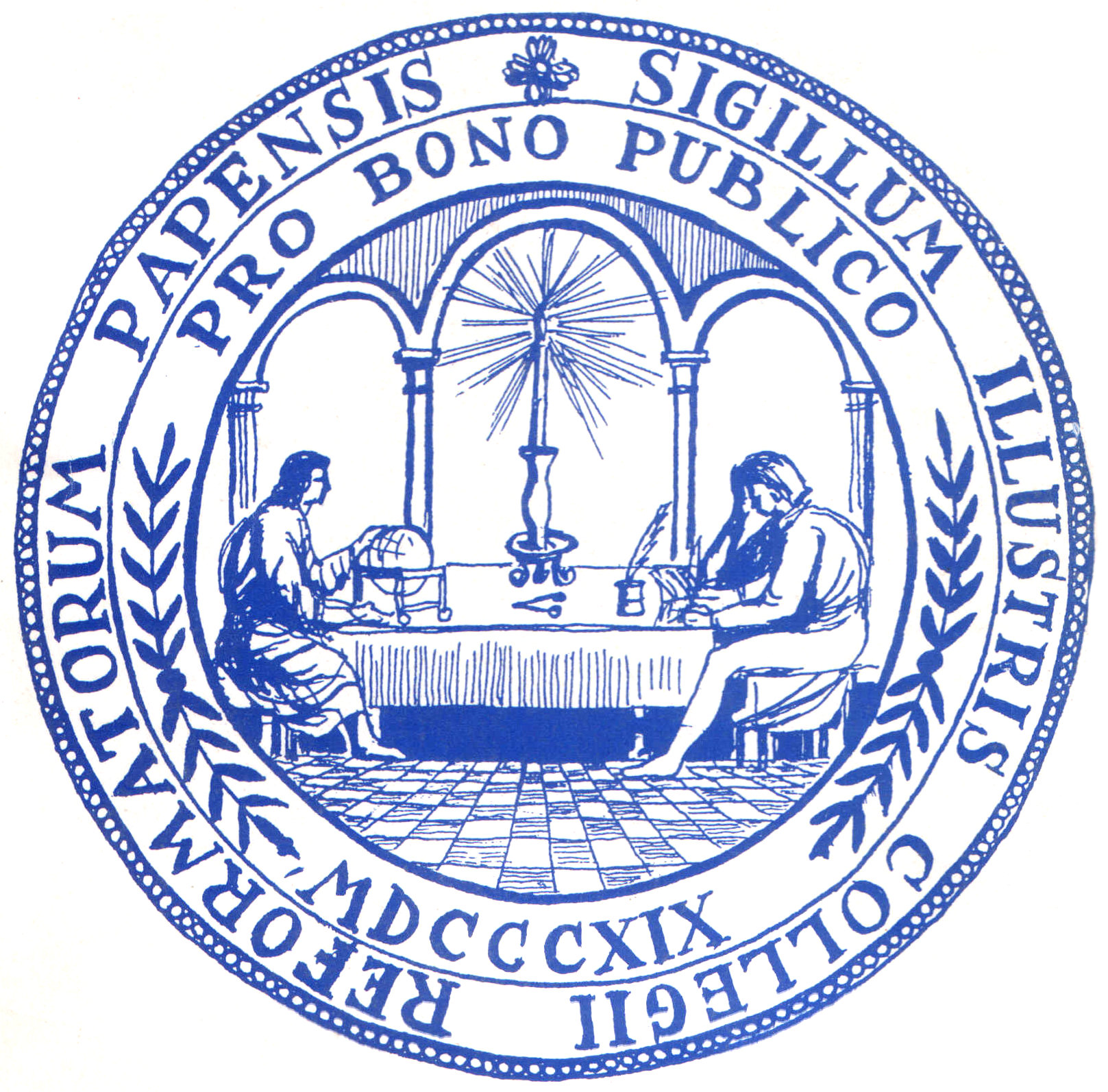 Seal of the Pápa Reformed College in 1819, with the old latin motto "Pro bono publico" ("For the public weal"). A Pápai Református Kollégium pecsétje 1819-ből, rajta a régi latin jelmondat: "Pro bono publico" ("A közjóért").